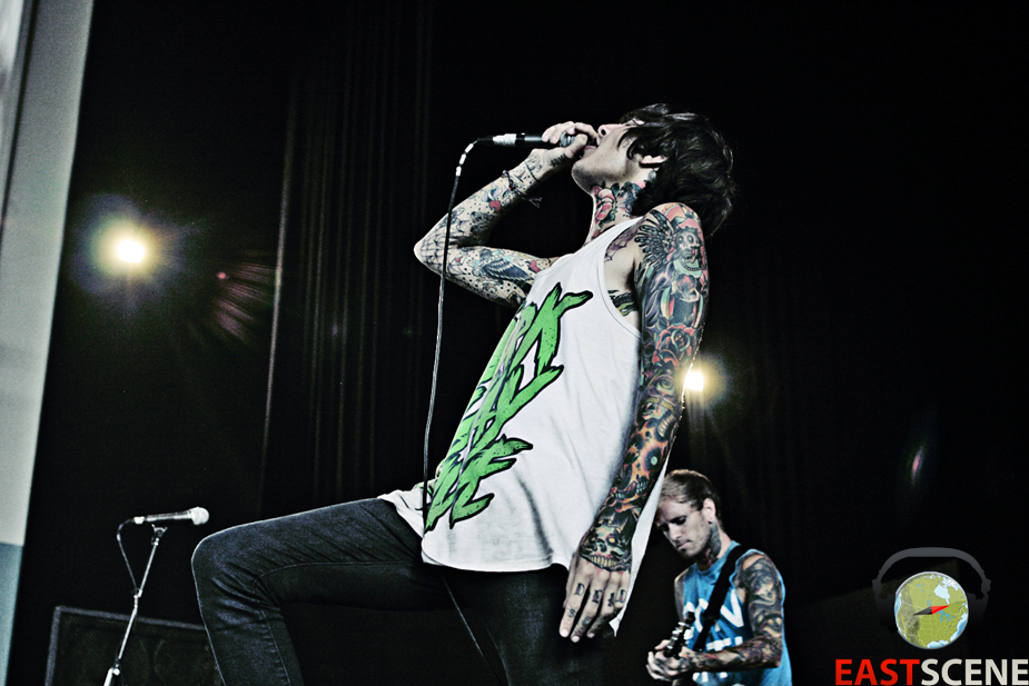 Bring Me the Horizon Warped Tour 2010.